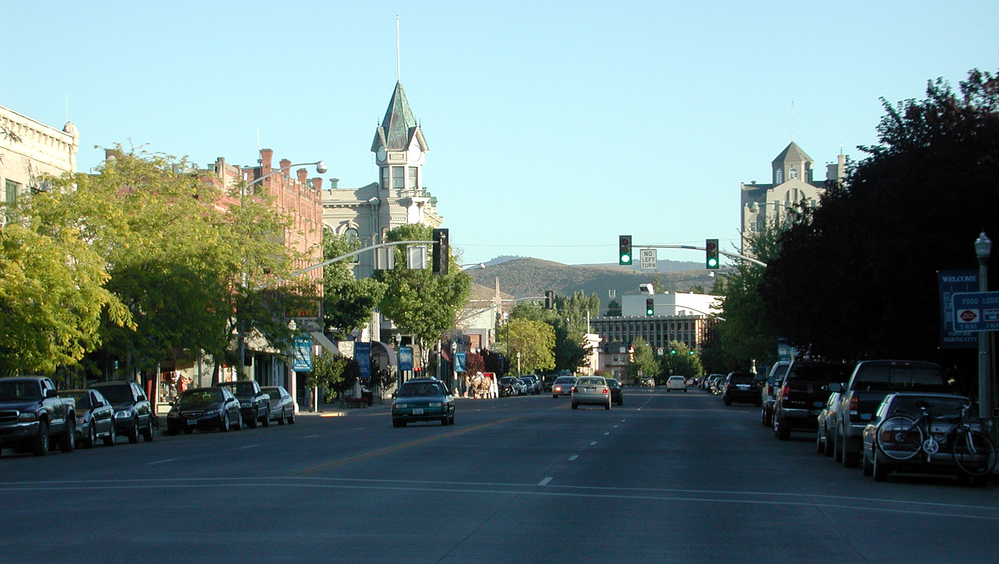 Main Street in downtown Baker City, Oregon, looking south near sundown